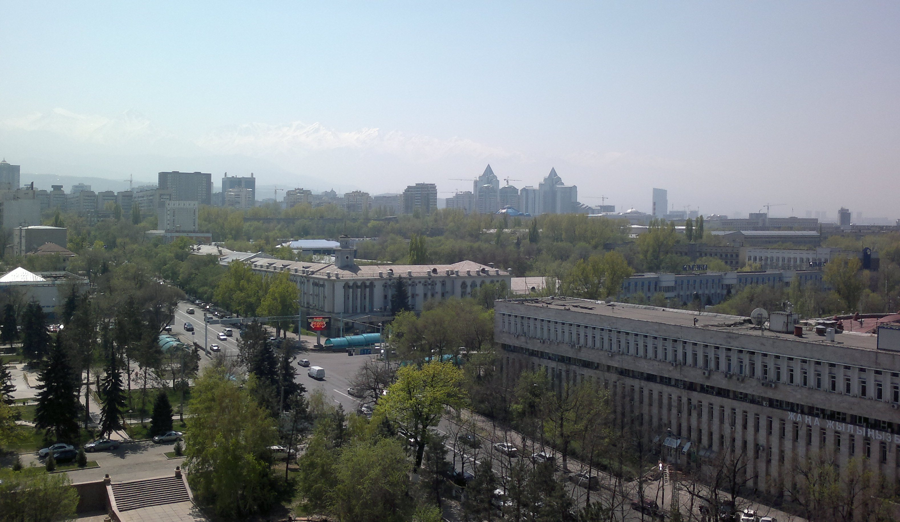 View of Alma-Ata, Kazakhstan